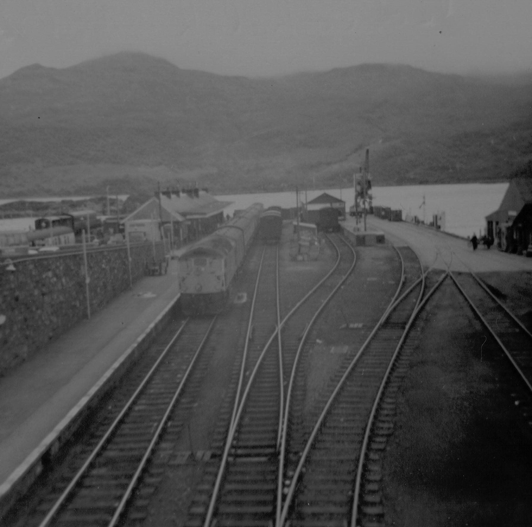 Kyle of Lochalsh station terminus